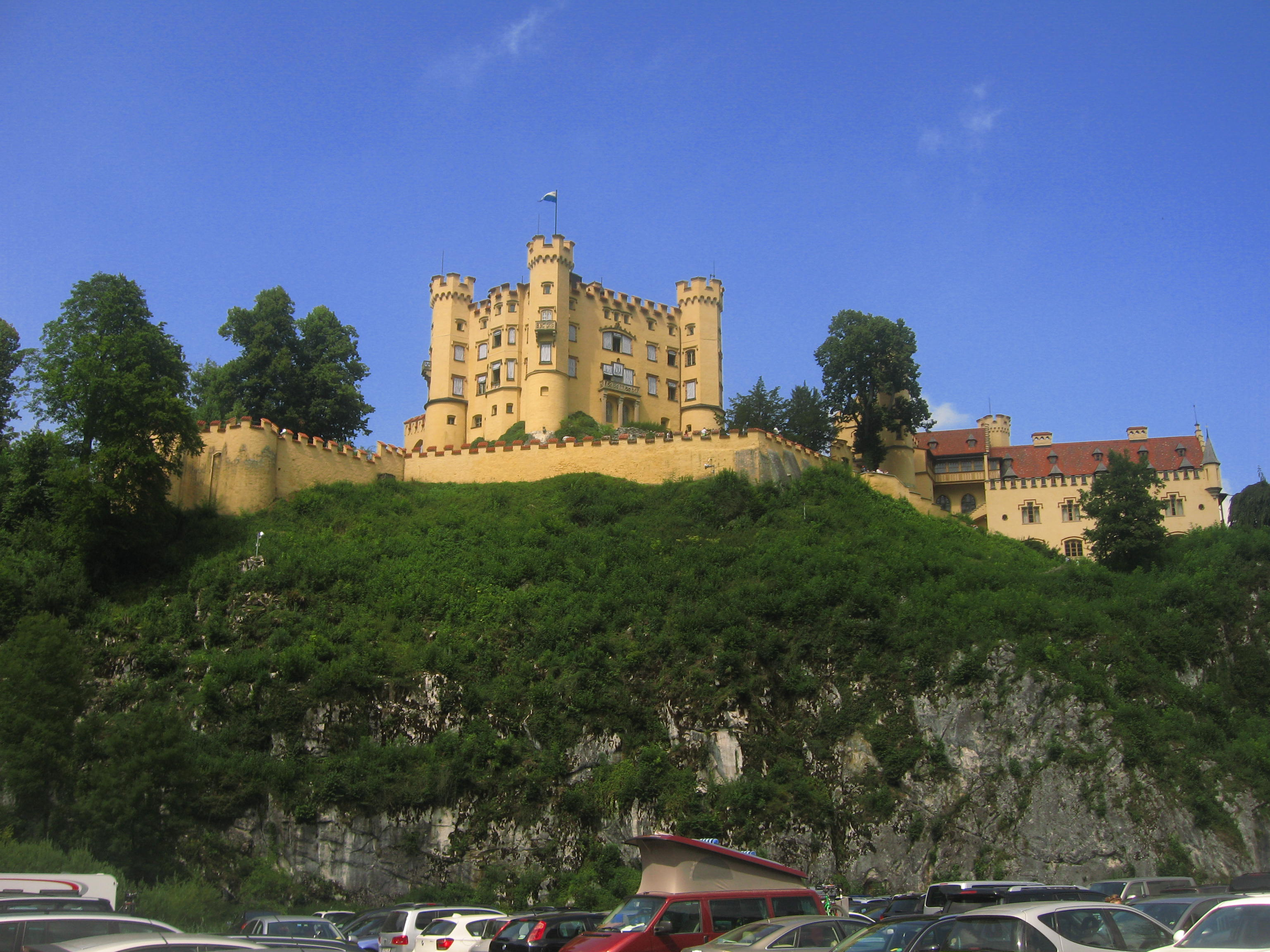 Hohenschwangau Castle, Germany